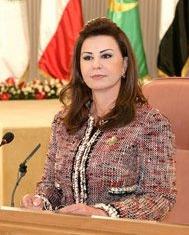 Close up of Tunisian first lady Leila Ben Ali presiding over a meeting of the Arab Women Organisation in November 2010.Full story